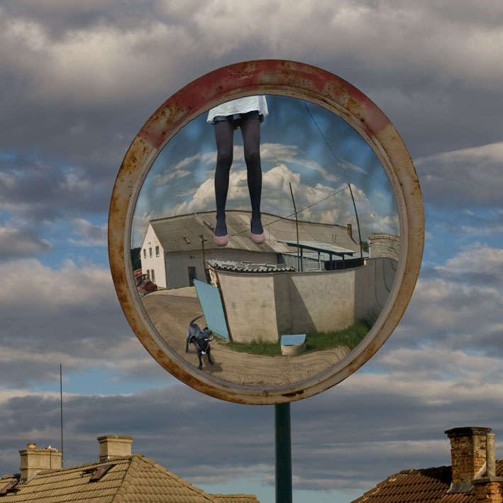 Fotografie Barbory Bálkové; Barbora Bálková´s photographs Personality rights warningAlthough this work is freely licensed or in the public domain, the person(s) shown may have rights that legally restrict certain re-uses unless those depicted consent to such uses. In these cases, a model release or other evidence of consent could protect you from infringement claims.